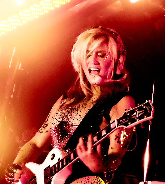 Photograph taken April 6, 2011 in St Lawrence Market, Toronto, ON, CA